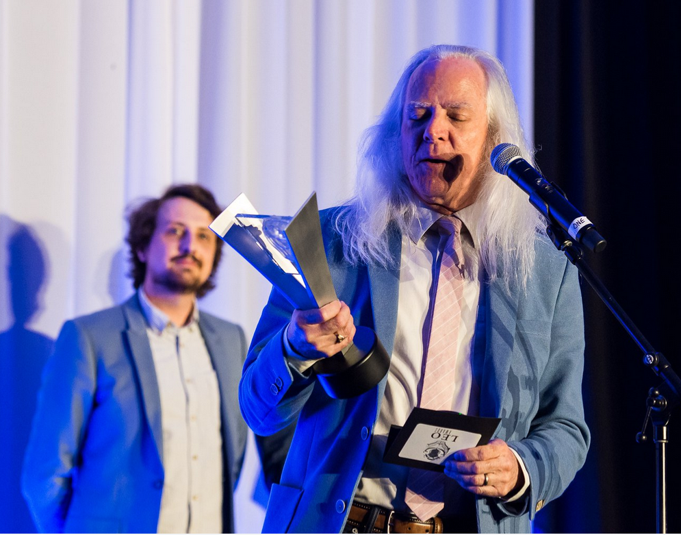 Peter at the Leo Awards 2019